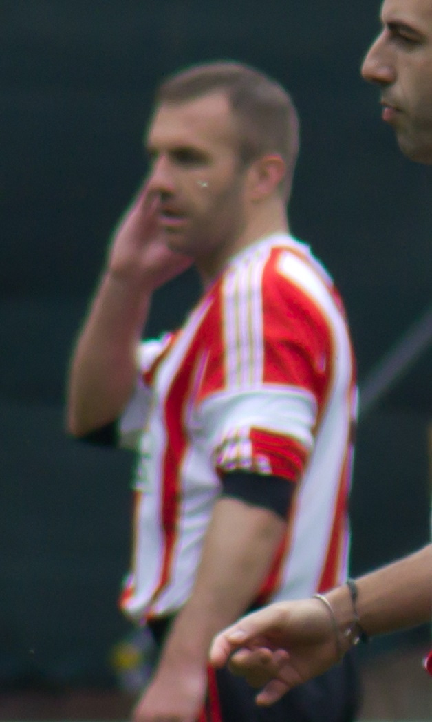 Darren Williams. Image cropped from original at flickr.